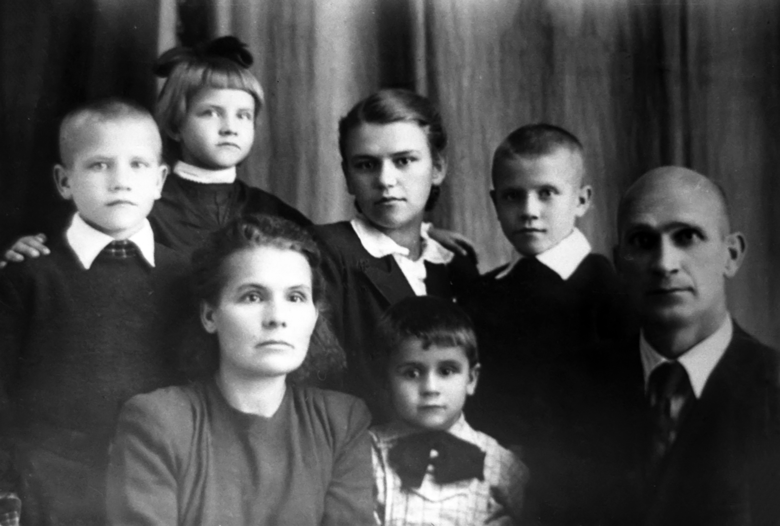 Photo taken in late 1940th